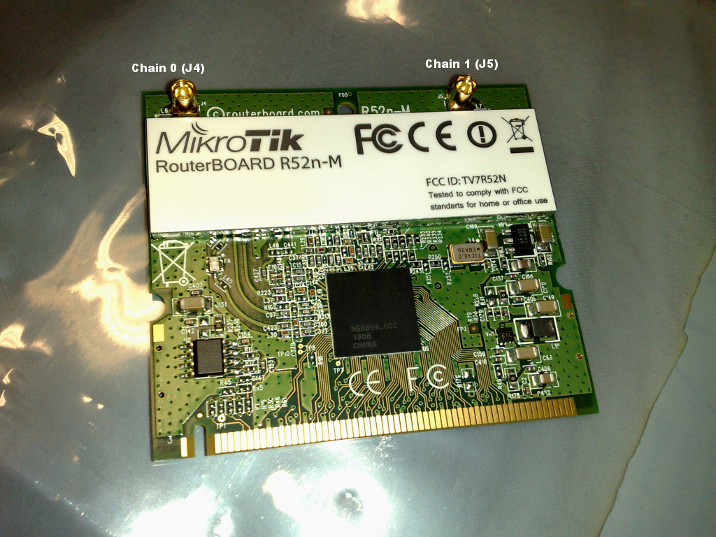 Top view of a RouterBOARD R52n-M wireless NIC (a Mini PCI Type IIIA card, based on the Atheros AR9220 chipset with 802.11a/b/g/n support and dual-band radio (2.4 GHz and 5 GHz), supporting 2×2 MIMO with two MMCX antenna connectors); antenna connectors (also called "chains") are labeled, showing the positions of card's antenna A (J4, chain 0) and antenna B (J5, chain 1) MMCX connectors